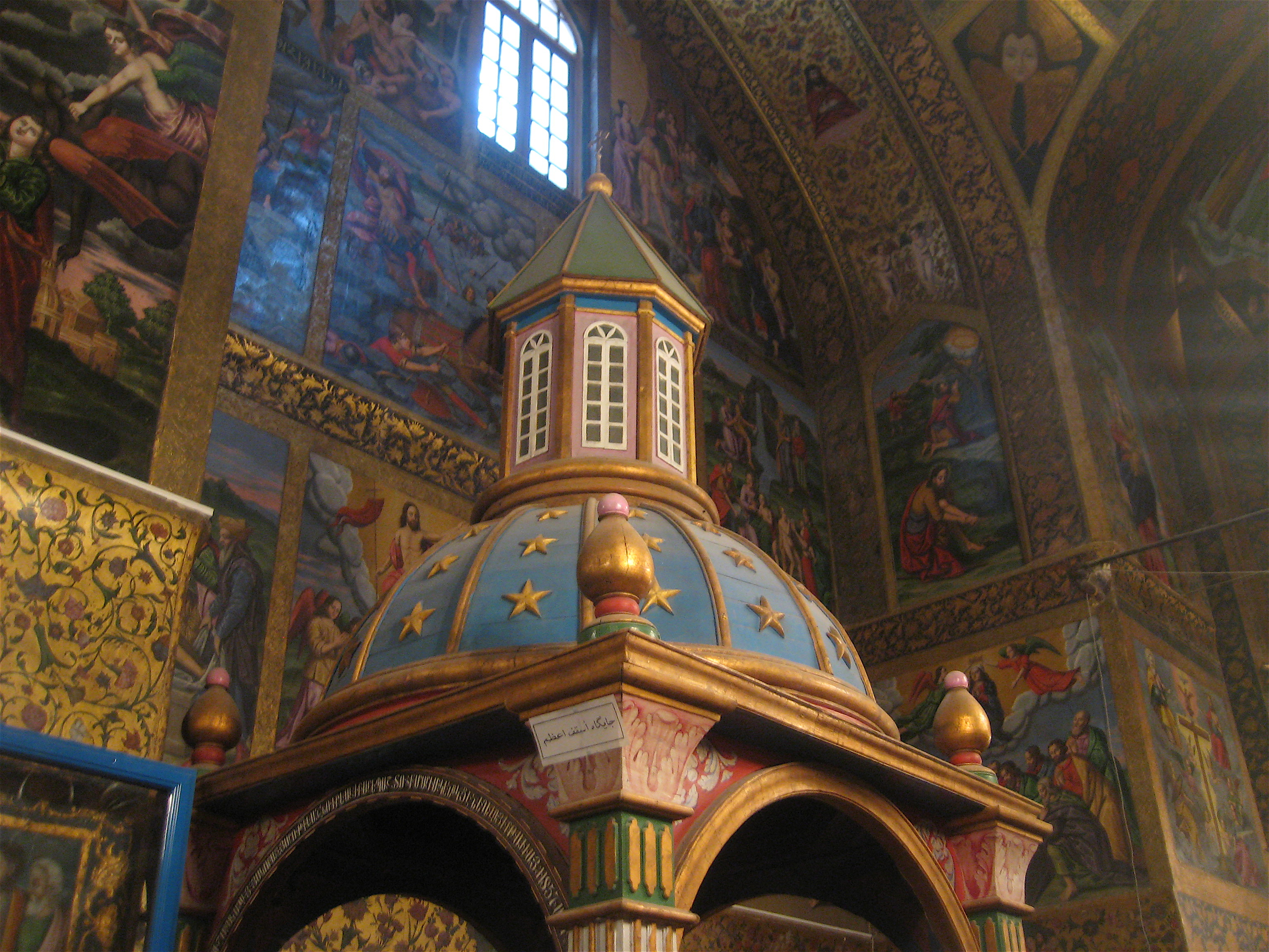 Inside the Armenian Cathedral of the Holy Savior in Isfahan, Iran.